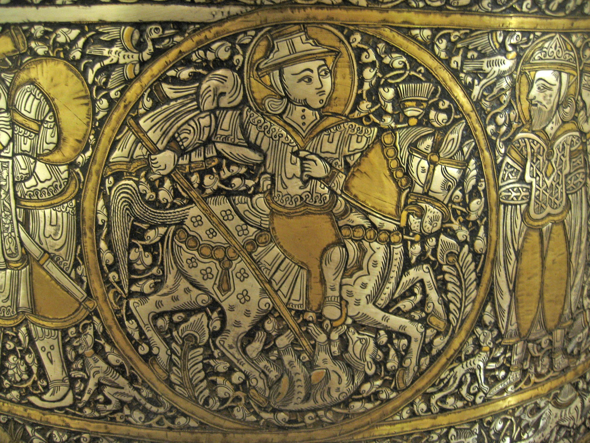 Basin with a procession of officials and four riders in roundels (exterior band); friezes of animals and coats-of-arms (interior band).